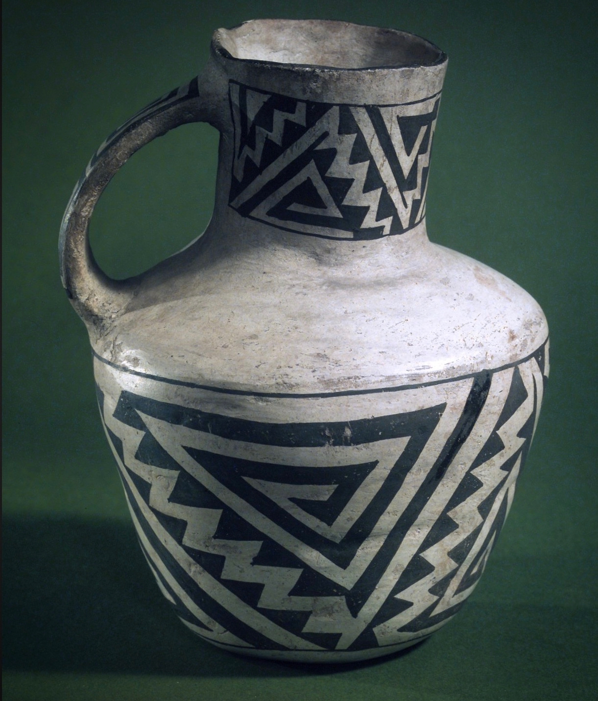 Pitcher with Black on White Geometric Designs Arts of the Americas On View: American Art Galleries, 5th Floor, The Americas’ First Peoples, 4000 B.C.E.–1521 C.E. Ancient Pueblo (Anasazi) Pottery: A Spectrum of Black and White Puebloan people excelled at creating an immense variety of pottery using only black and white. This color scheme was partly dictated by the nature of the clay and the mineral or plant paints available. Archaeologists surmise that cross-hatched designs like the one on this bowl may have represented the color turquoise—reflecting the precious stone and the color of water, a sacred commodity in the dry Southwest region. CULTURE Ancient Pueblo (Anasazi), Native American MEDIUM Ceramic, pigment Place Made: Mancos Canyon, Colorado, United States DATES 900-1300 DIMENSIONS 7 x 5 x 5 in. (17.8 x 12.7 x 12.7 cm) (show scale) COLLECTIONS Arts of the Americas MUSEUM LOCATION This item is on view in American Art Galleries, 5th Floor, The Americas’ First Peoples, 4000 B.C.E.–1521 C.E. EXHIBITIONS Realm of Marvels: Building Collections for the Future American Art ACCESSION NUMBER 01.1538.1756 CREDIT LINE Gift of Charles A. Schieren RIGHTS STATEMENT Creative Commons-BY CAPTION Ancient Pueblo (Anasazi) (Native American). Pitcher with Black on White Geometric Designs, 900-1300. Ceramic, pigment, 7 x 5 x 5 in. (17.8 x 12.7 x 12.7 cm). Brooklyn Museum, Gift of Charles A. Schieren, 01.1538.1756. Creative Commons-BY (Photo: Brooklyn Museum, 01.1538.1756.jpg) IMAGE overall, 01.1538.1756.jpg. Brooklyn Museum photograph CATALOGUE DESCRIPTION Abstract lightening and maze forms.